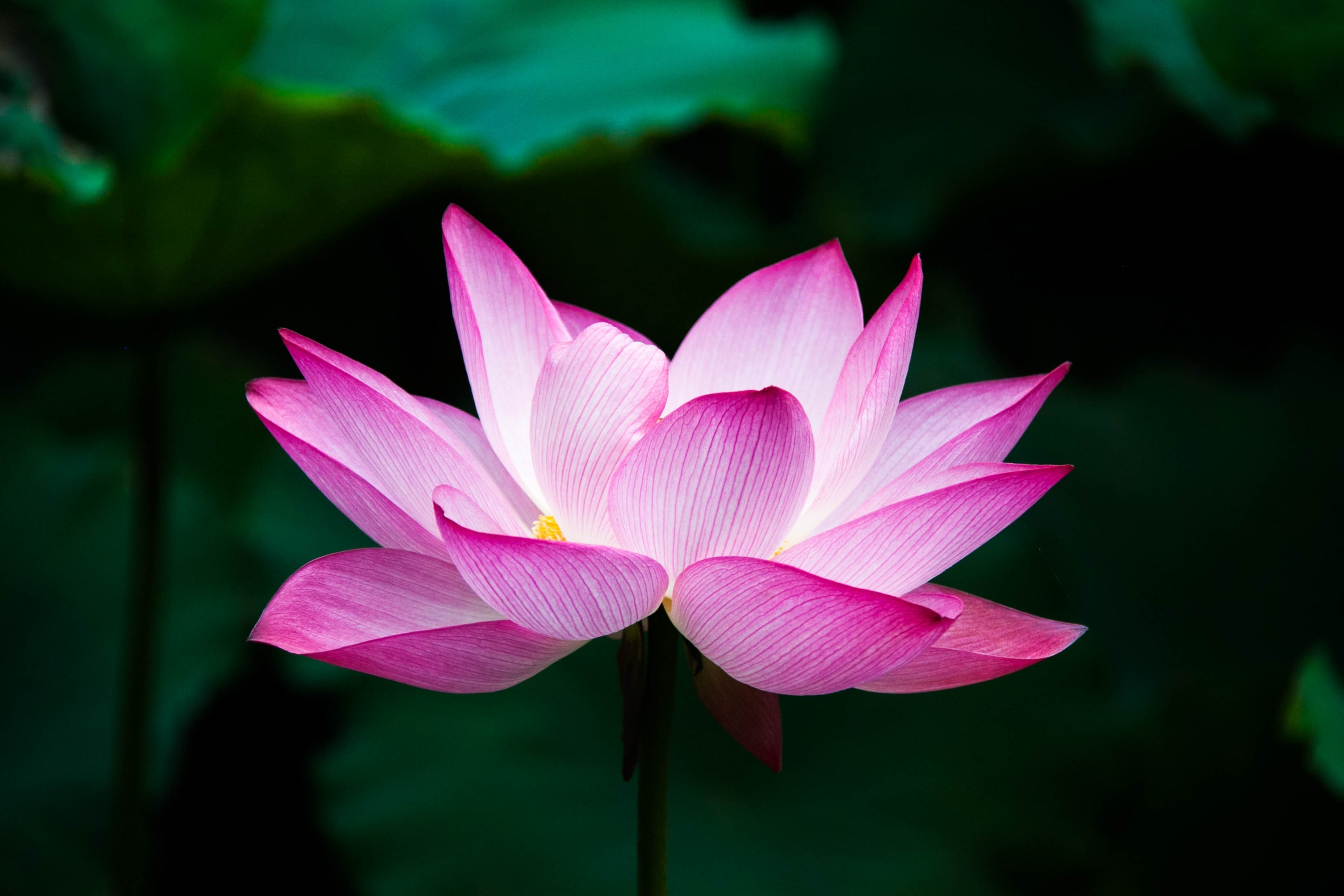 Flower of an Indian Lotus (Nelumbo nucifera)